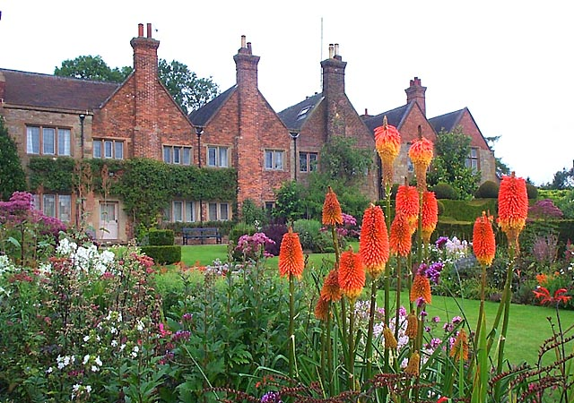 Felley Priory. Felley Priory was founded in 1156 for Augustinian or Black Canons but very little of the original structure remains. The site today is occupied by a long low Elizabethan house.